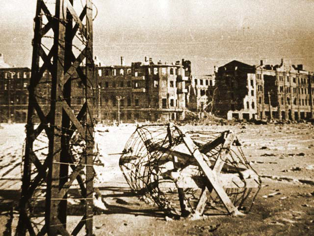 Voronezh, Lenin sq. The view at building of the city administration (gorispolcom), 1943.